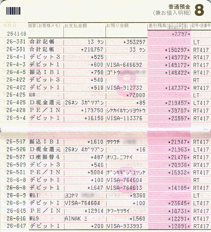 Japanese bank book printed transaction messages in half-width kana. In Japan, the Nationalwide Banking Data Communication System was established in 1973, and it only handled latin, numbers, and katakana within 20 characters. The system was replaced by ZEDI (the Nationalwide Banking EDI System) in 2018, which can handle hiragana and kanji with variable length characters.